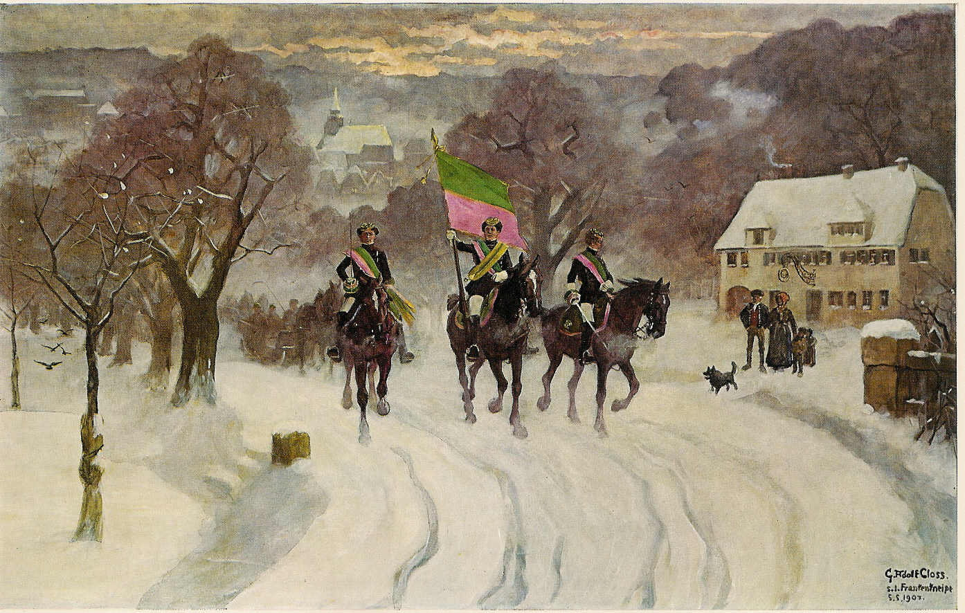 Winter excursion of Corps Franconia Tübingen, oil painting hanging in the dining room of the corps house